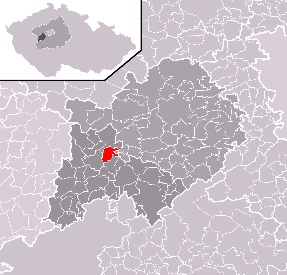 Location of Chlustina municipality within Beroun District and administrative area of Hořovice as a Municipality with Extended Competence.